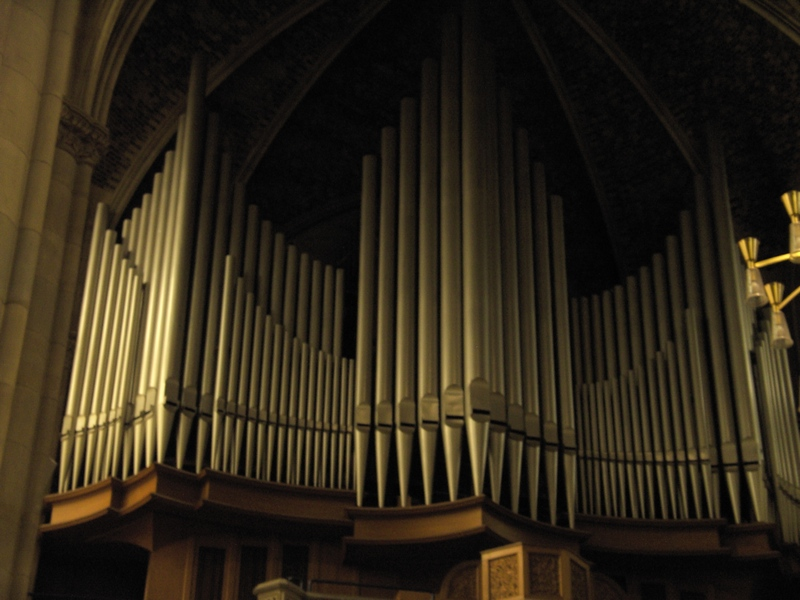 Organ of the Gedächtniskirche Speyer